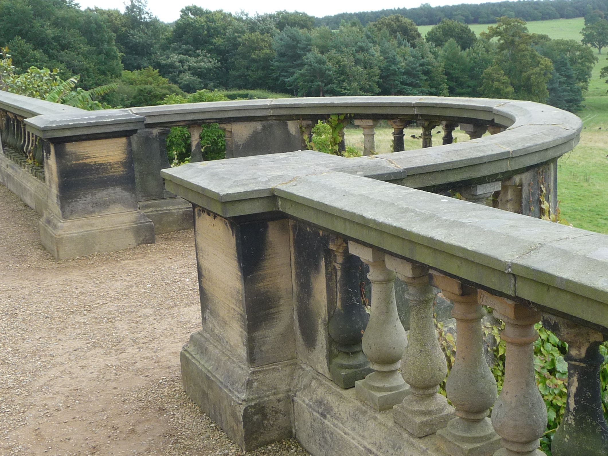 Stone Balustrade at the Terrace Garden at Harewood House, Harewood, West Yorkshire, England